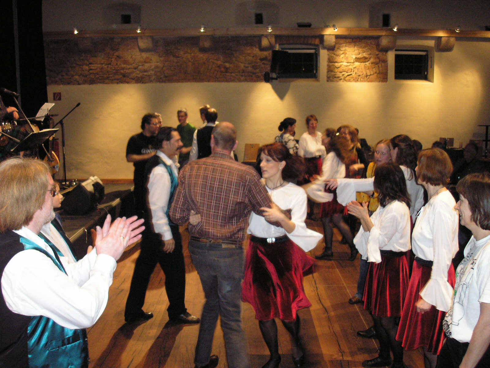 Irish Céilí Dance- Haymaker´s Jig